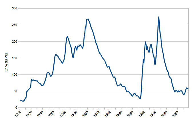 British National Debt as a % of GDP 1700-1999. Data from Niall Ferguson.